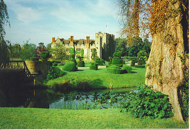 Hever Castle from the South-west. Hever was Anne Boleyn's family home.